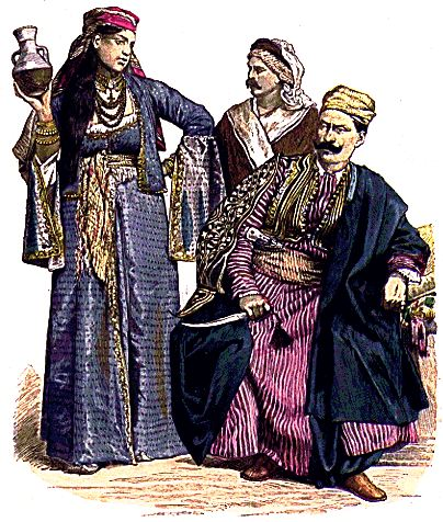 Armenian girl, Druze, inhabitant of Damascus, late nineteenth century.